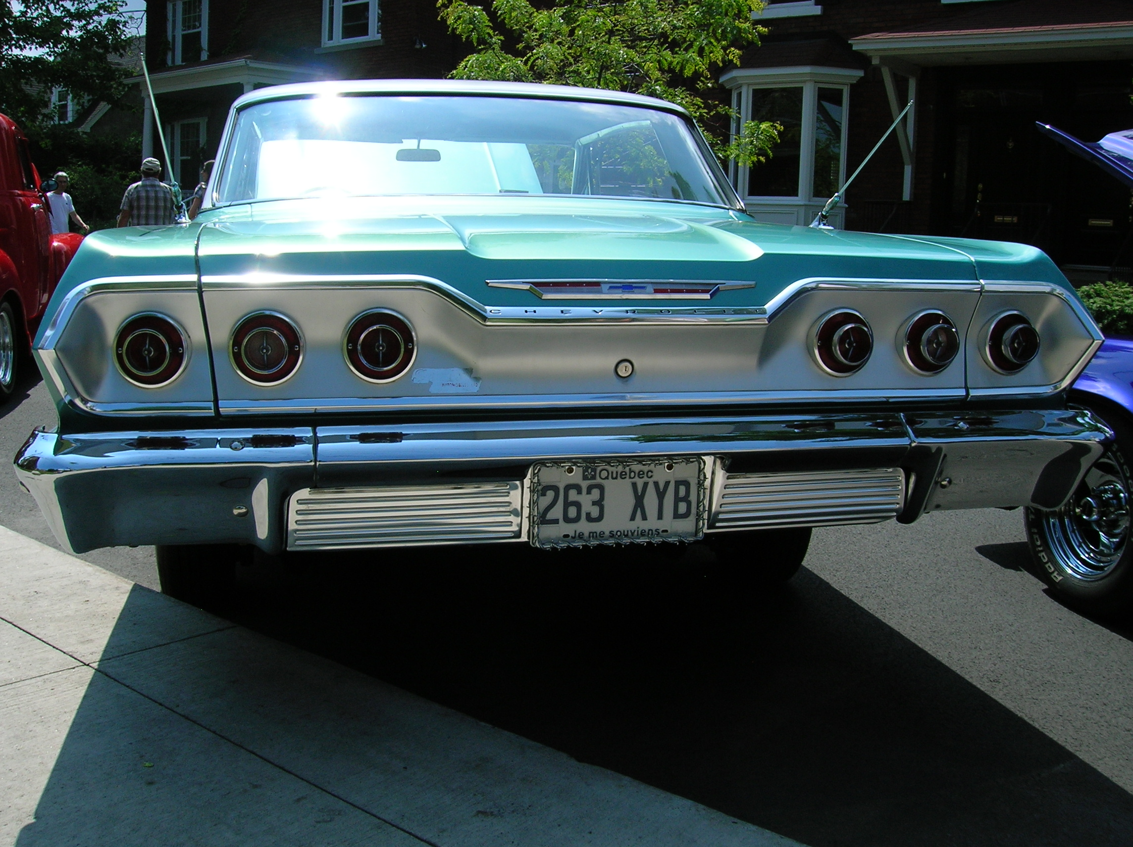 1963 Chevrolet Impala rear